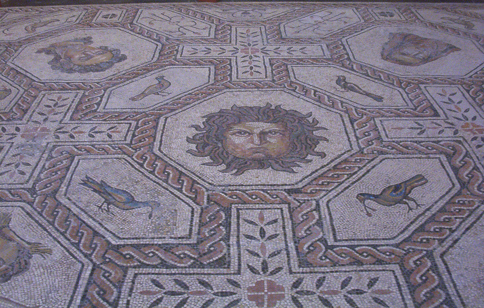 Roman mosaic.